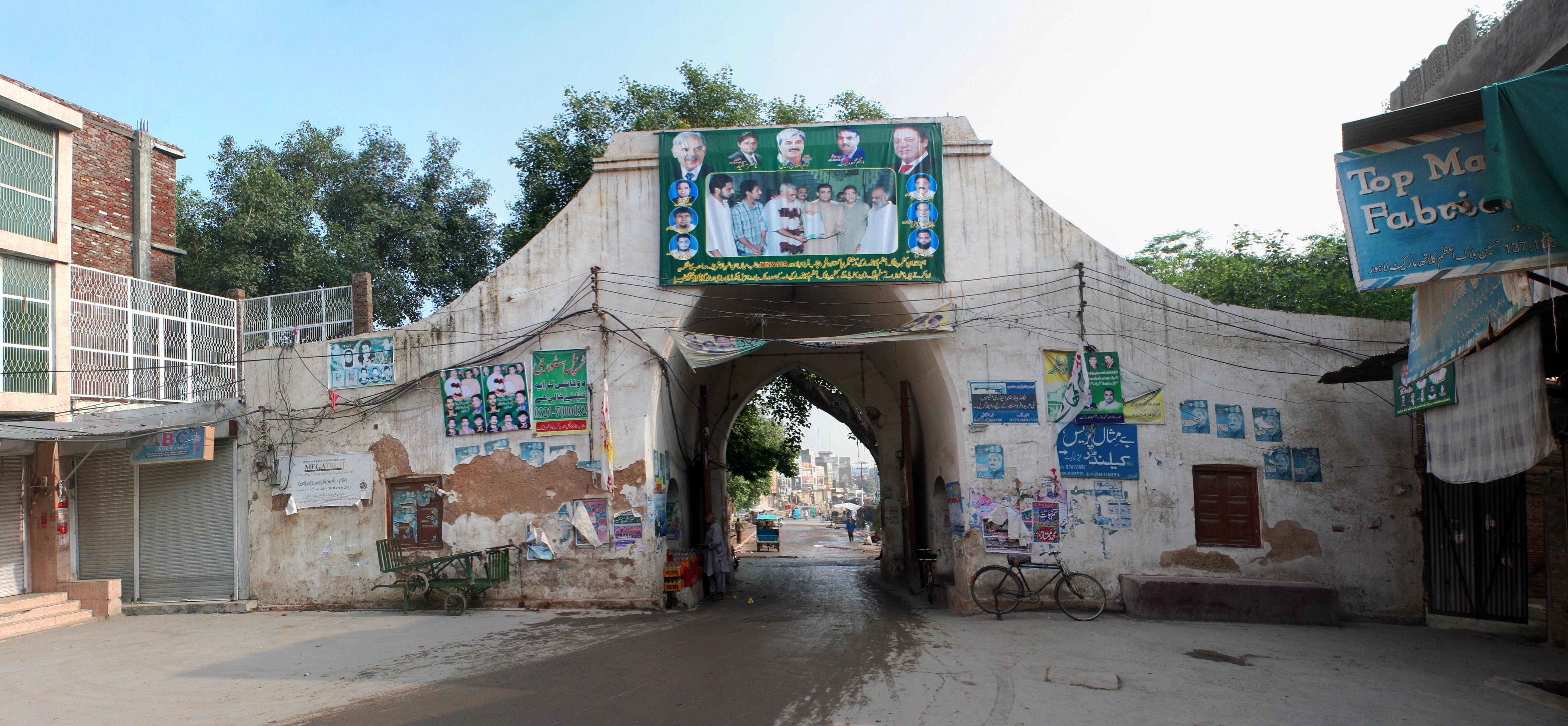 Kashmiri Gate This is a photo of a monument in Pakistan identified as the PB-51